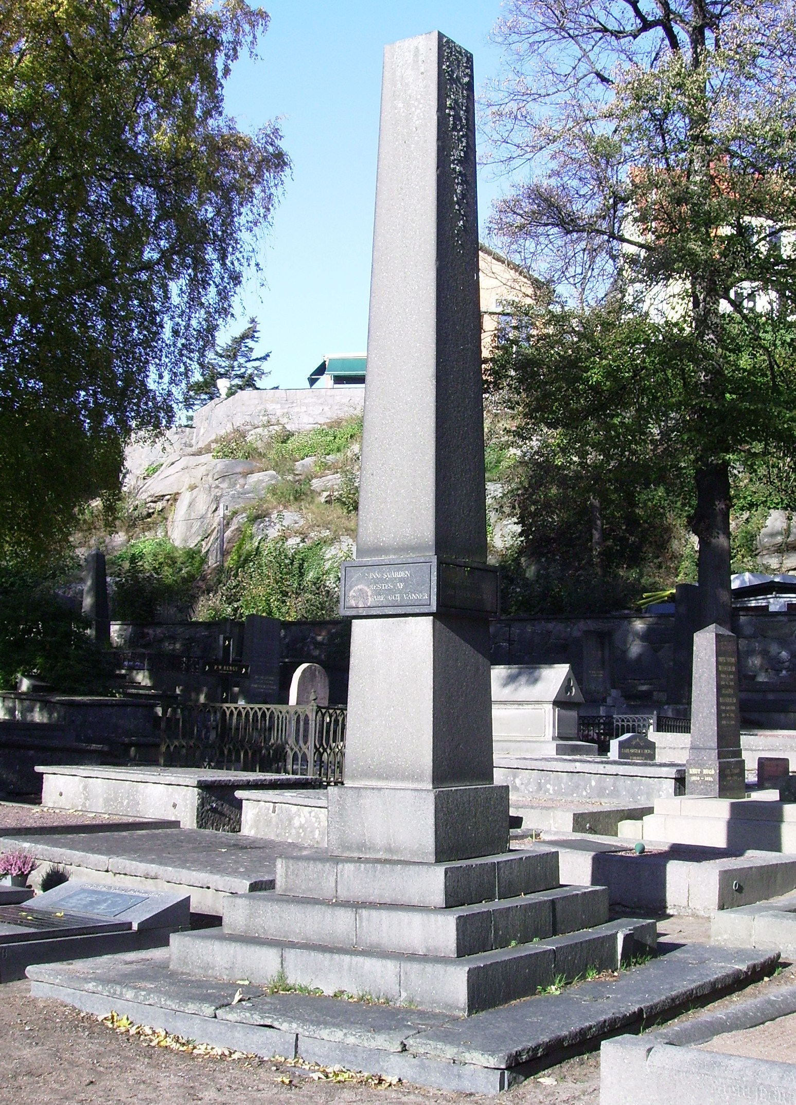 Picture of Eduard Ludendorff's of Gothenburg grave at Örgryte gamla kyrkogård in Göteborg